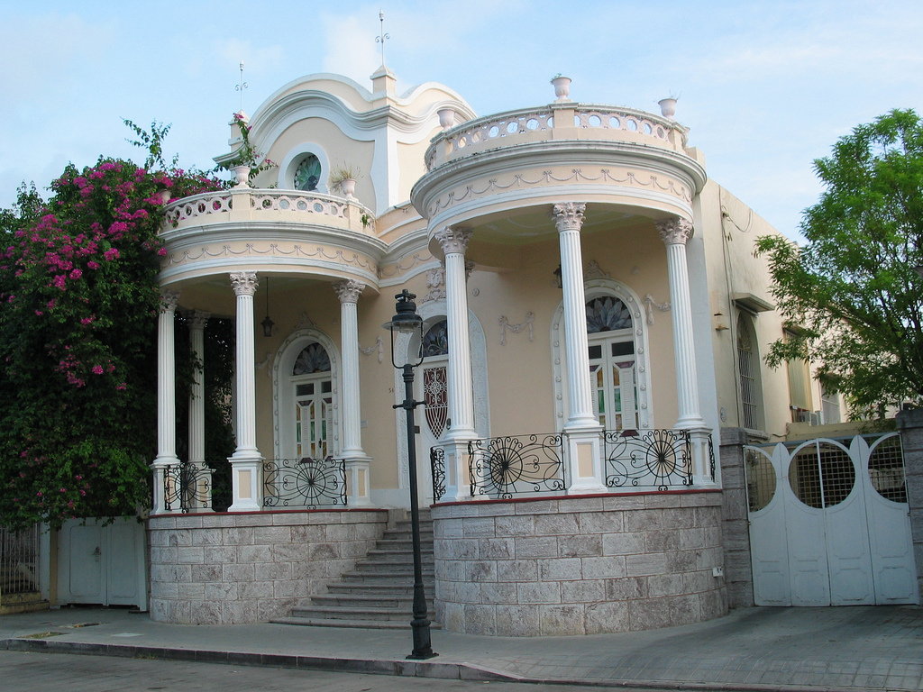 Casa Font-Ubides — residence within the Ponce Historic Zone, in Ponce, Puerto Rico. 1913 Art Nouveau and Neoclassical style entrance facade with balconies, looking northwest.